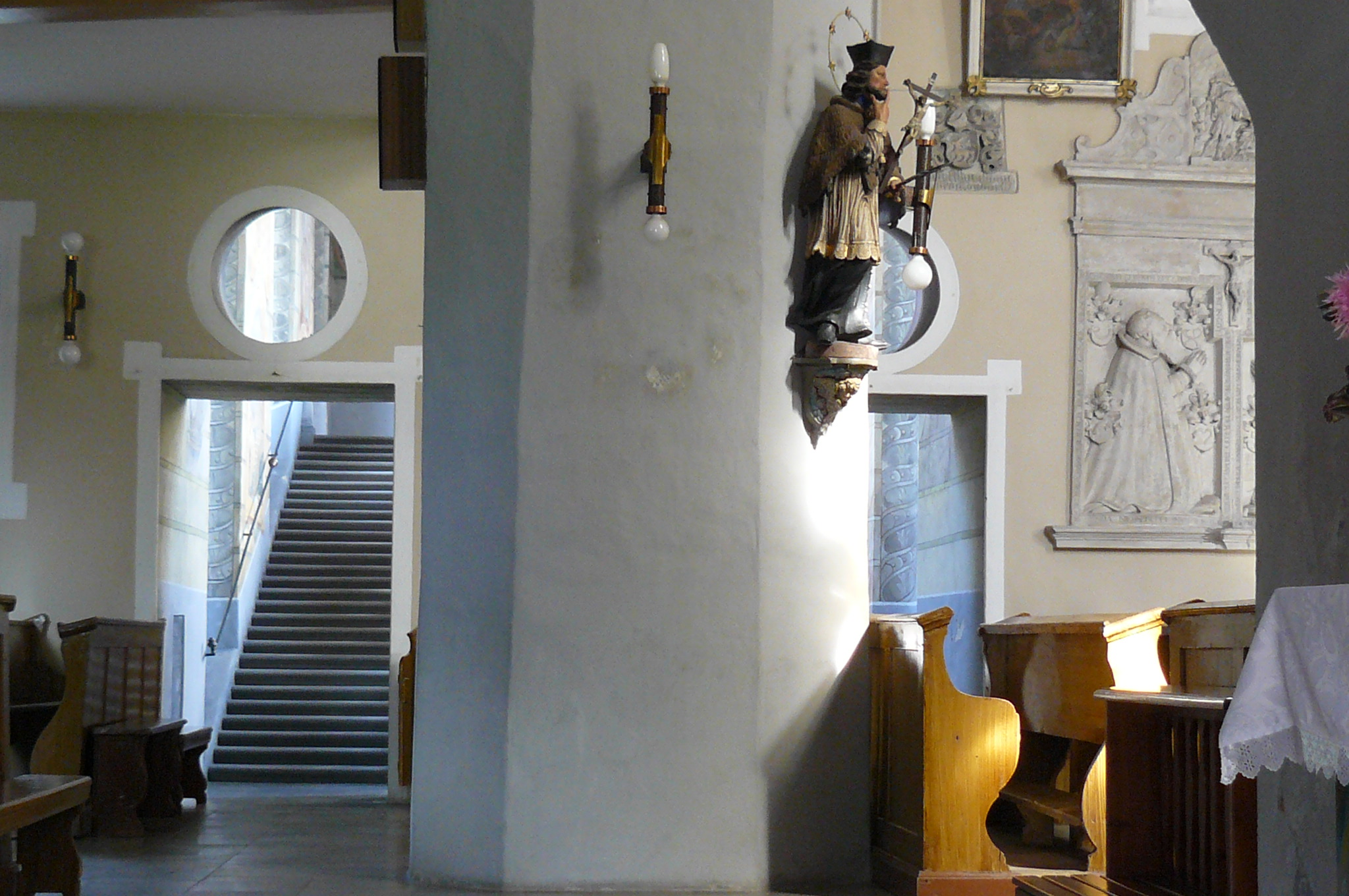 Scala Sancta in church in Sosnica by Katy Wroclawskie.